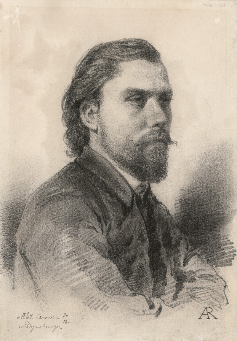 Portrait of presbyter Boleslaw Aleksandravičius, 1864, paper, pencil, National Museum of Lithuania